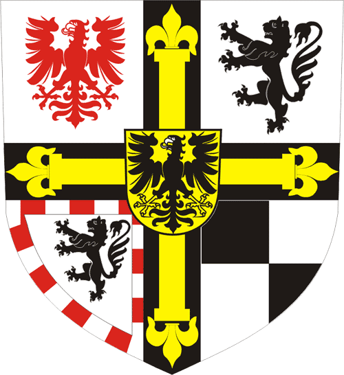 Teutonic Order - Coat of Arms of the Grandmaster Albrecht von Brandenburg